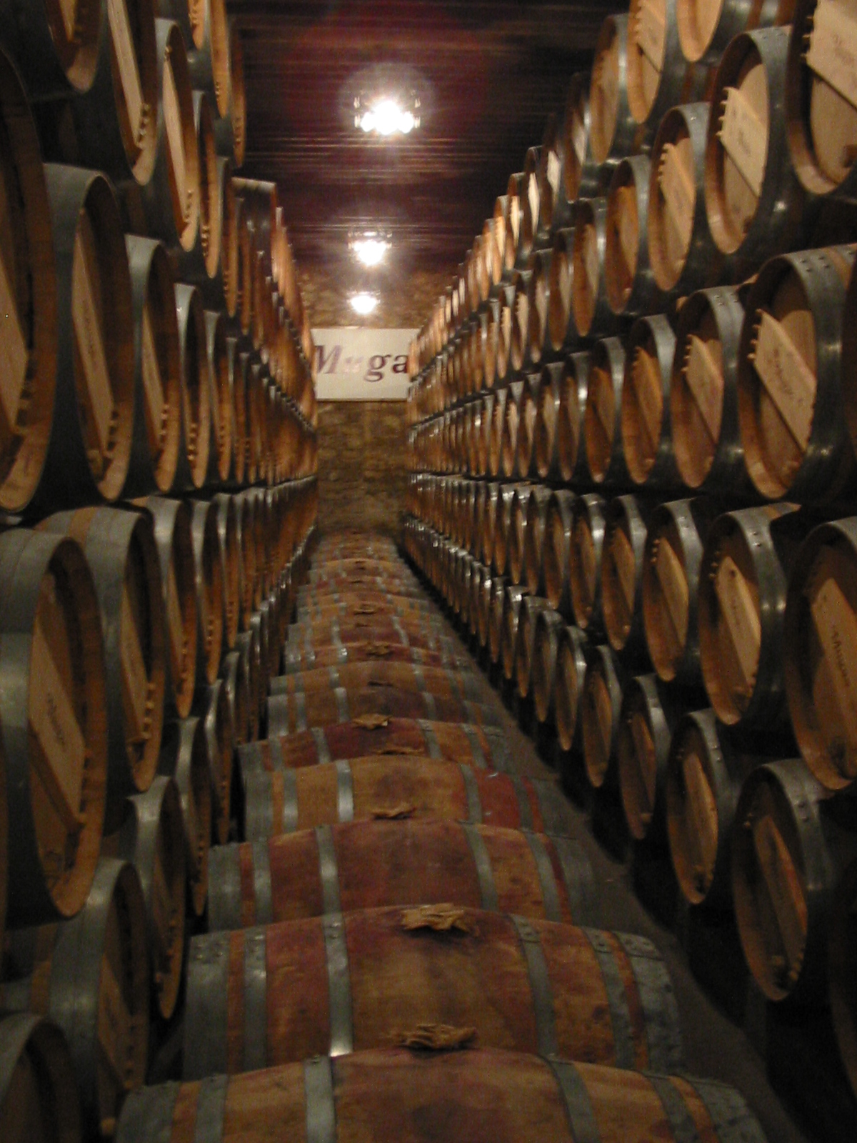 Wine barrels kept on a cellar in Haro, La Rioja (Spain)